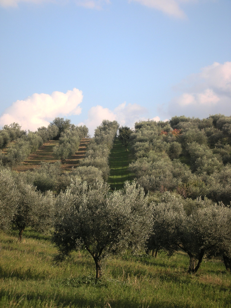 Olive Trees in "Fara in Sabina" Rieti, Central Italy.